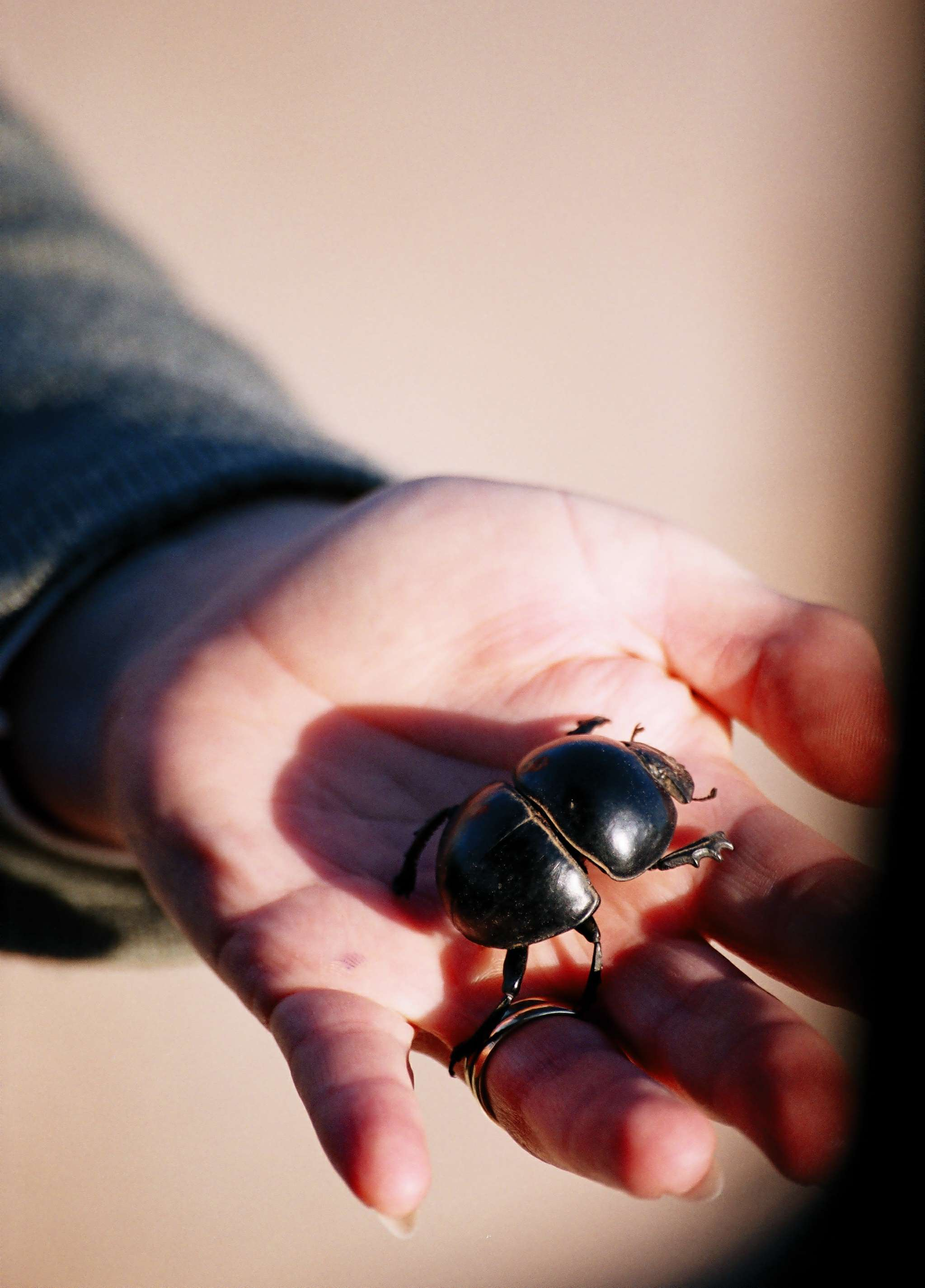 Flightless dung beetle (Circellium bacchus), from Addo Elephant National Park, South Africa. My own work, published under GFDL.